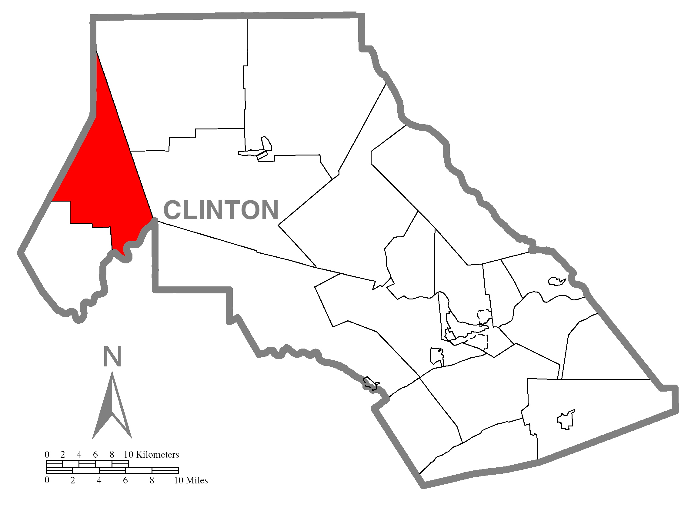 A map of Clinton County showing East Keating Township, Pennsylvania (alternate) highlighted on the map.